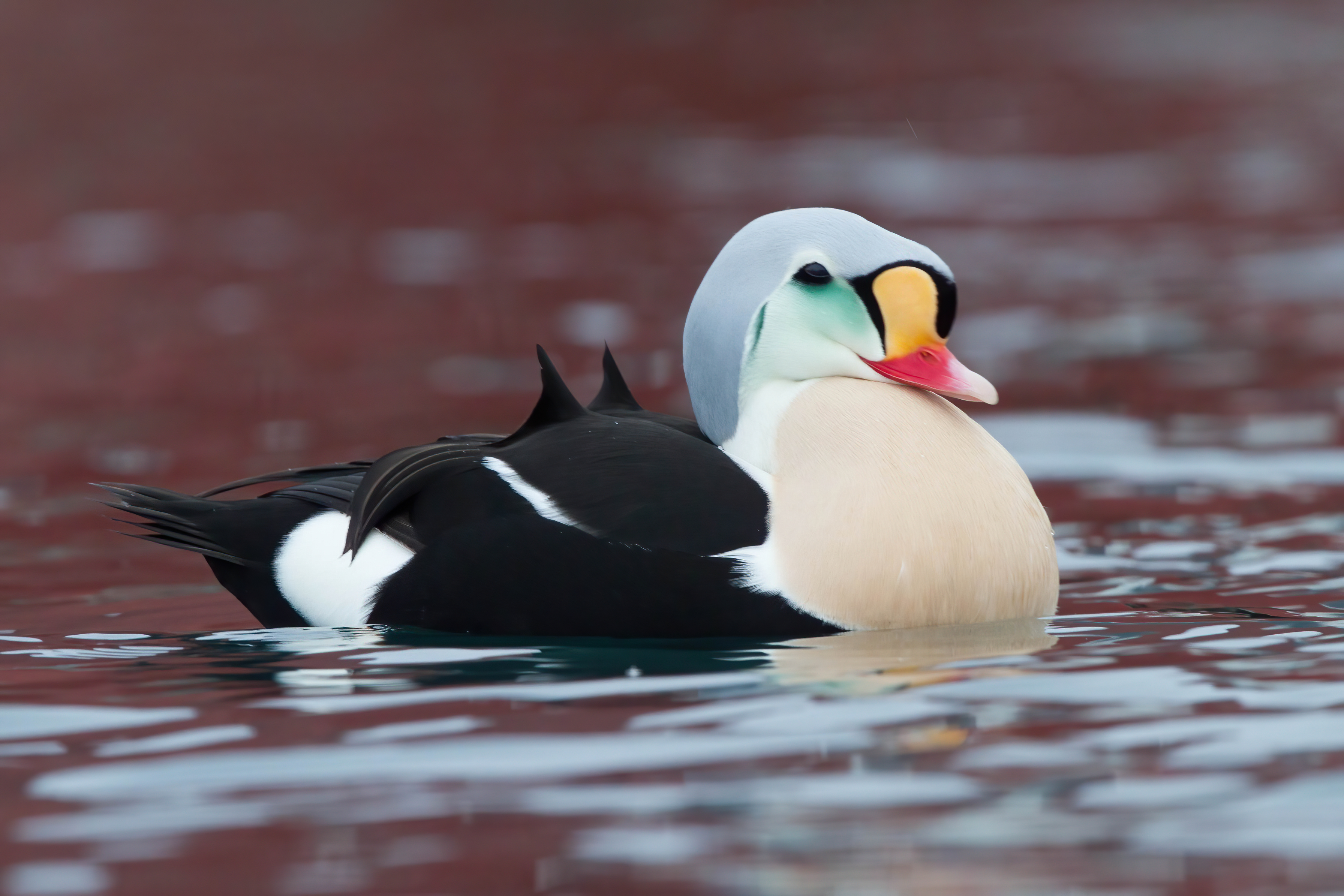 King Eider Somateria spectabilis, northern Norway